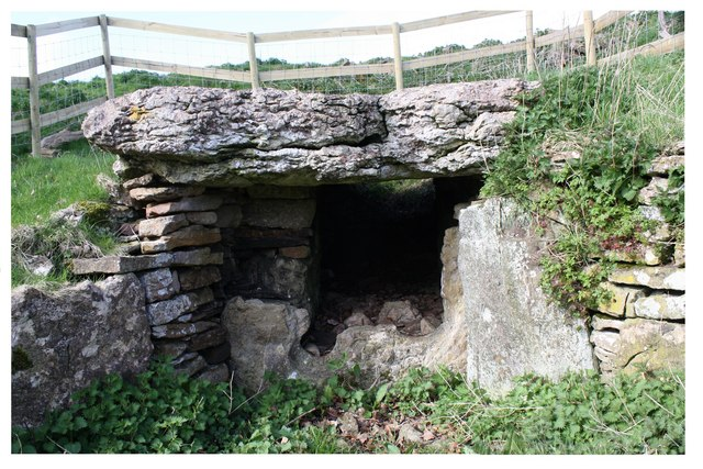 Bryn yr Hen Bobl Burial Chamber. The stone at the front of the Chamber would have reached to the ceiling. It is believed that the two holes at the bottom of the stone were to allow grave goods to be passed into the Chamber, also to let the Spirits out. This would have been the centre of the Mound.